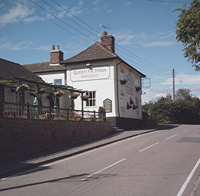 The Queen Victoria, Woodham Walter. One of three pubs in Woodham Walter.